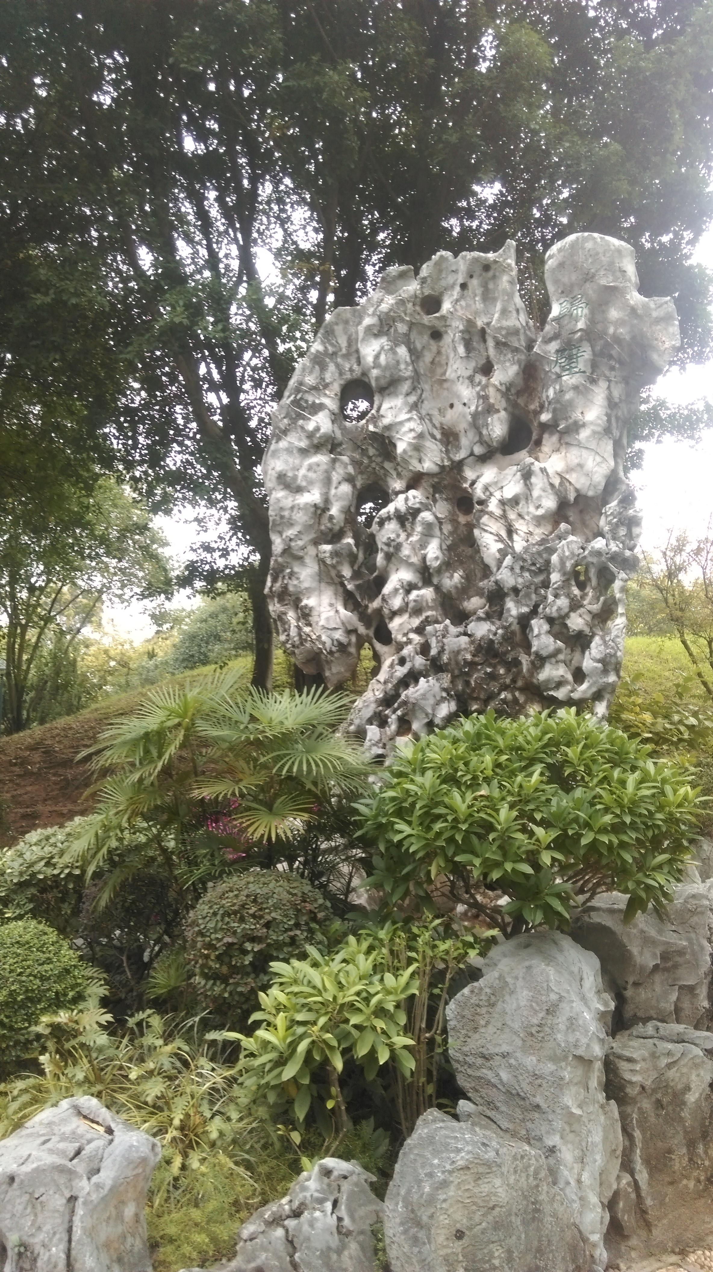 The Guibi Rock in Kowloon Walled City Park